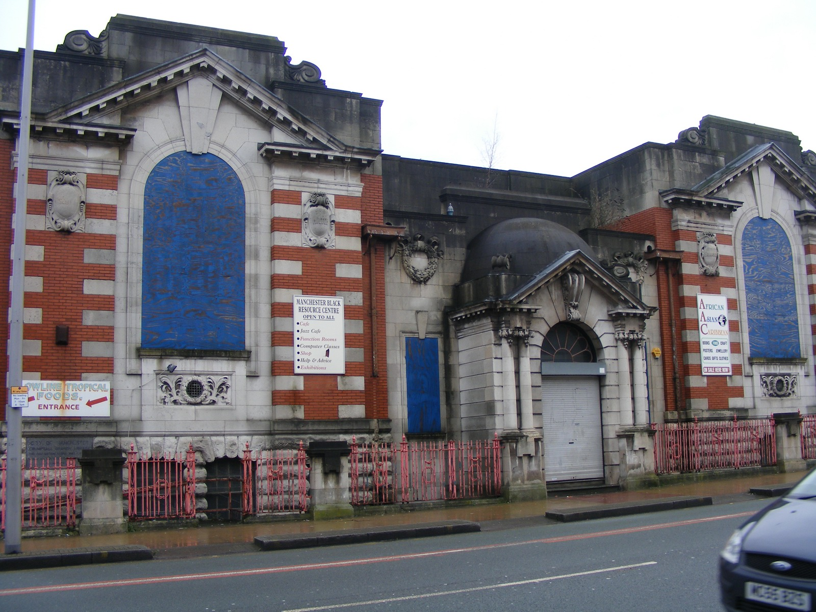 Former Cheetham Hill Library on Cheetham Hill Rd. Built by the architect Henry Price between 1909-11. The Library stock was moved in July 1974 to new accommodation in the Abraham Moss Centre. The building is currently unused.